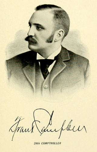 Frank Campbell, New York State Comptroller (1892-1893) Other information Originally from Roberts, James A.; _A Century in the Comptroller's Office, State of New York, 1797 to 1897_; Albany NY, James B. Lyon; 1897. Digitized by Richard J. Shiffer.